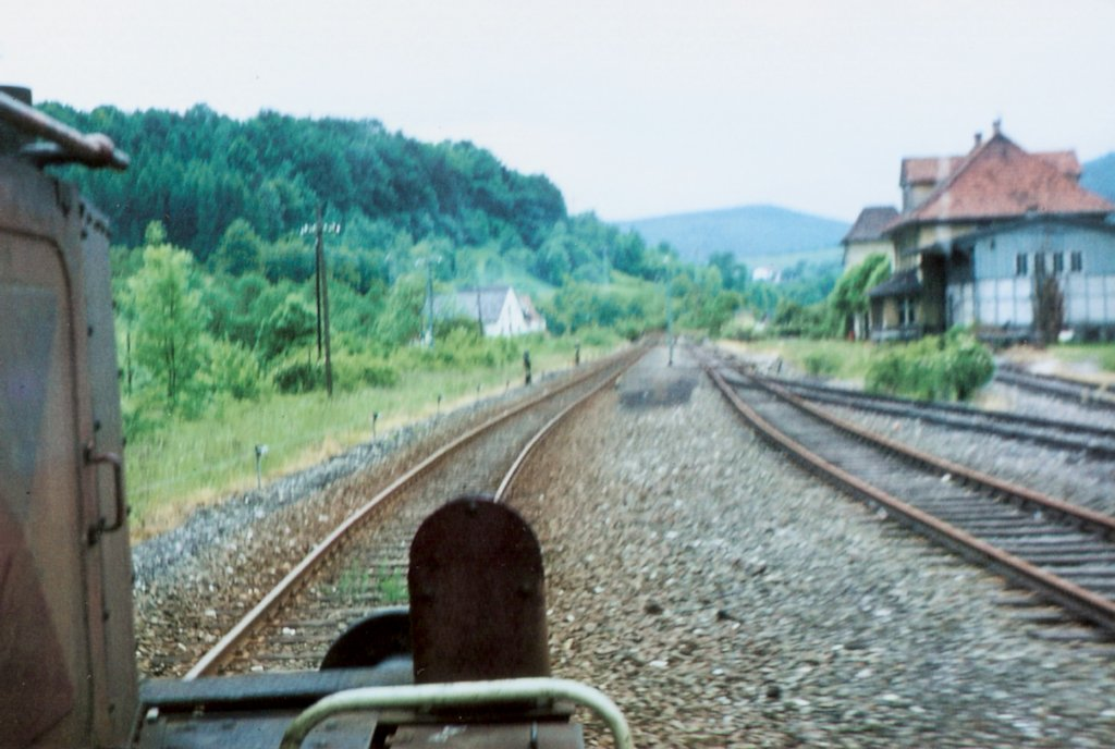 Former station Trubenhausen of the meanwhile closed Gelstertalbahn Eichenberg-Großalmerode Ost-Walburg. While passenger traffic was stopped in 1973, freight traffic continued for some years afterwards.